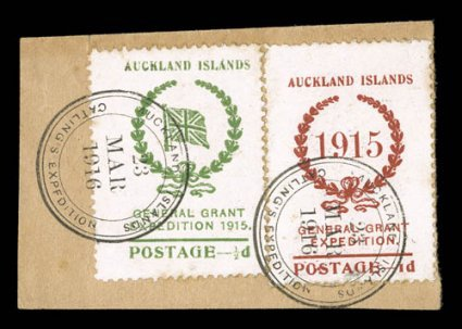 Stamps issued for 1915-16 "General Grant" Auckland Islands Expedition, 1/2p Green and 1p Red expedition "stamps", tied to small piece by two strikes of "Auckland Islands/23 Mar 1916/Catling's Expedition" double circle postmarks